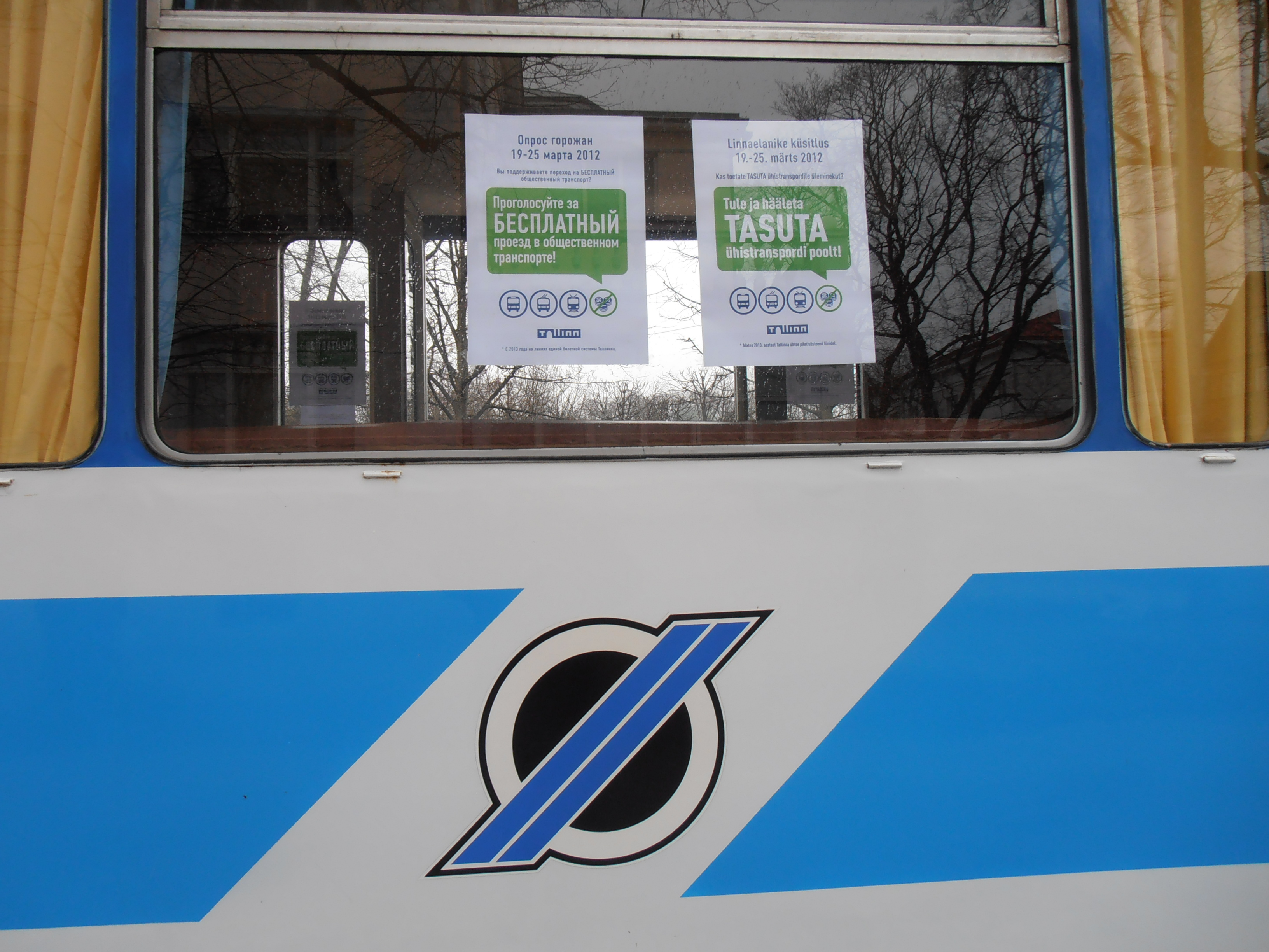 Public transport (buses, trolleys and trams) in Tallinn will be free of charge for its residents